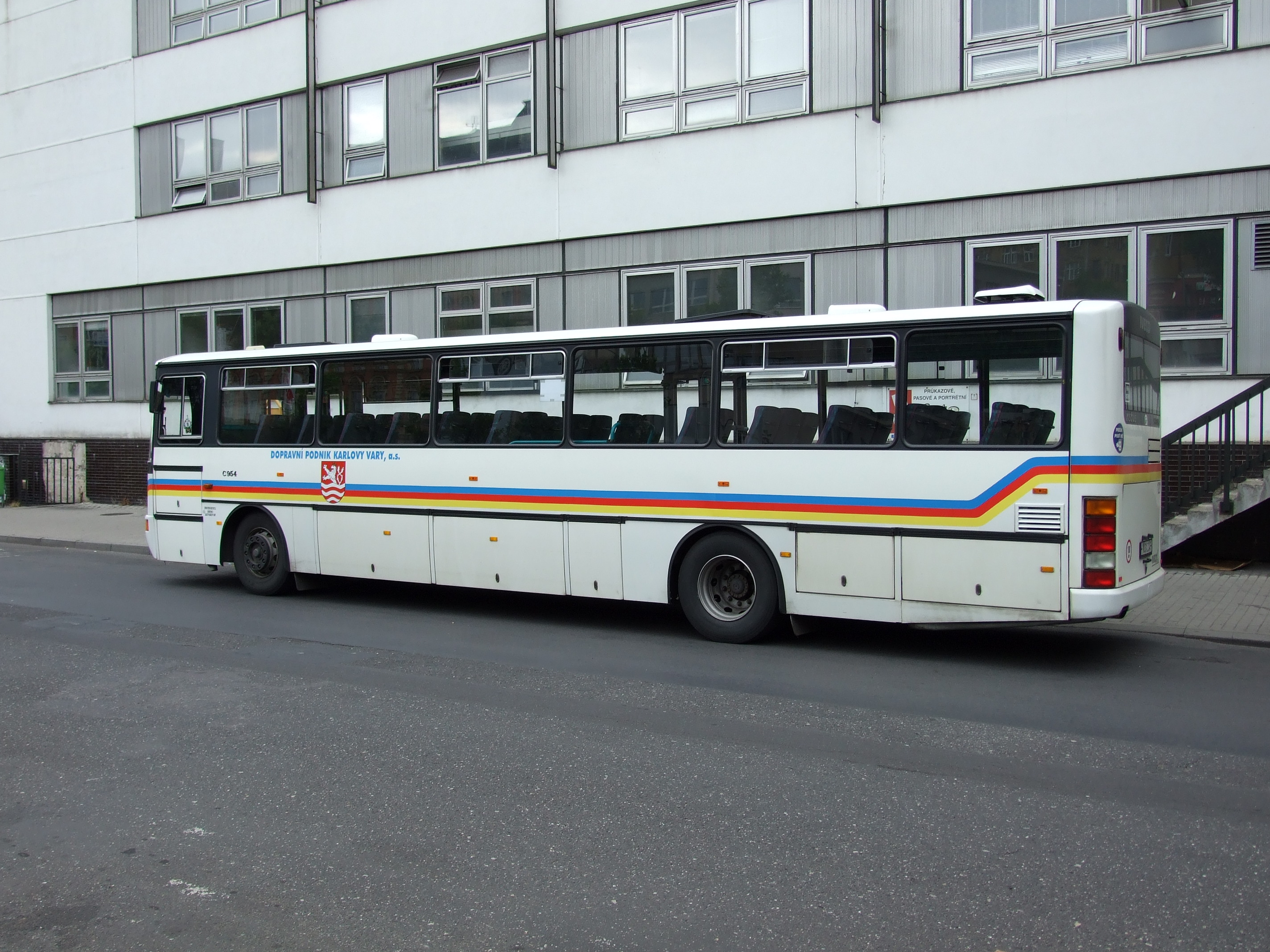 One of intercity transport buses in Karlovy Varyhelp